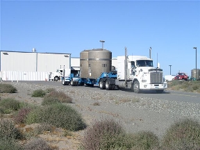 The 100th Shipment of Transuranic (TRU) Waste Leaves the Waste Receiving and Processing Facility (WRAP) Enroute to the Waste Isolation Pilot Plant (WIPP) in New Mexico. This Shipment Resulted in a New Record Being Set for the Number of Shipments Sent to WIPP in One Fiscal Year.